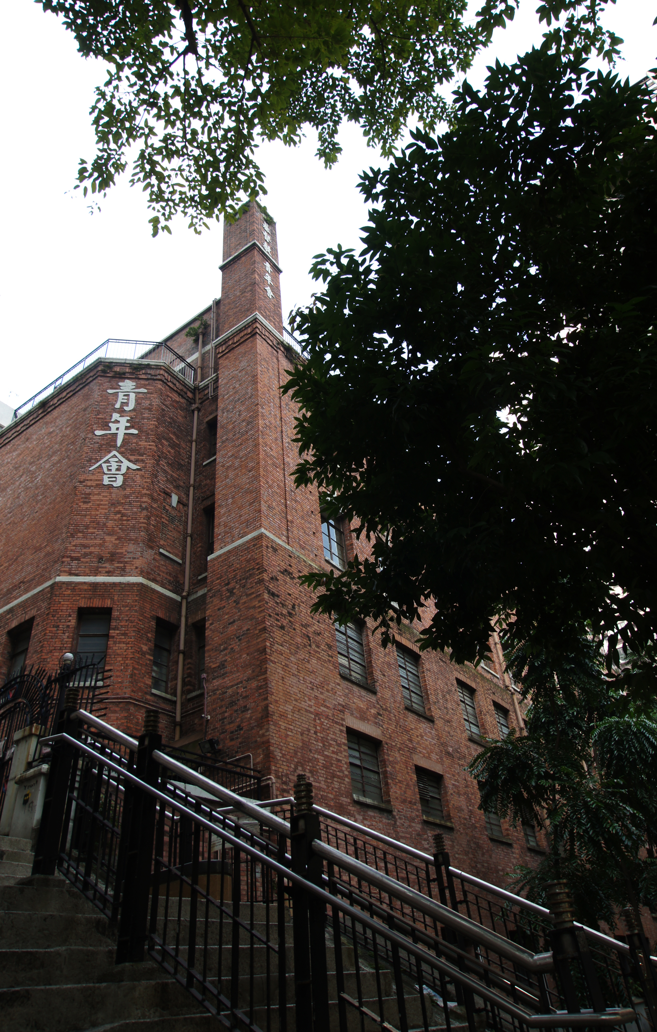 中文（香港）: The outer side of Chinese YMCA of Hong Kong, Bridges Street Centre